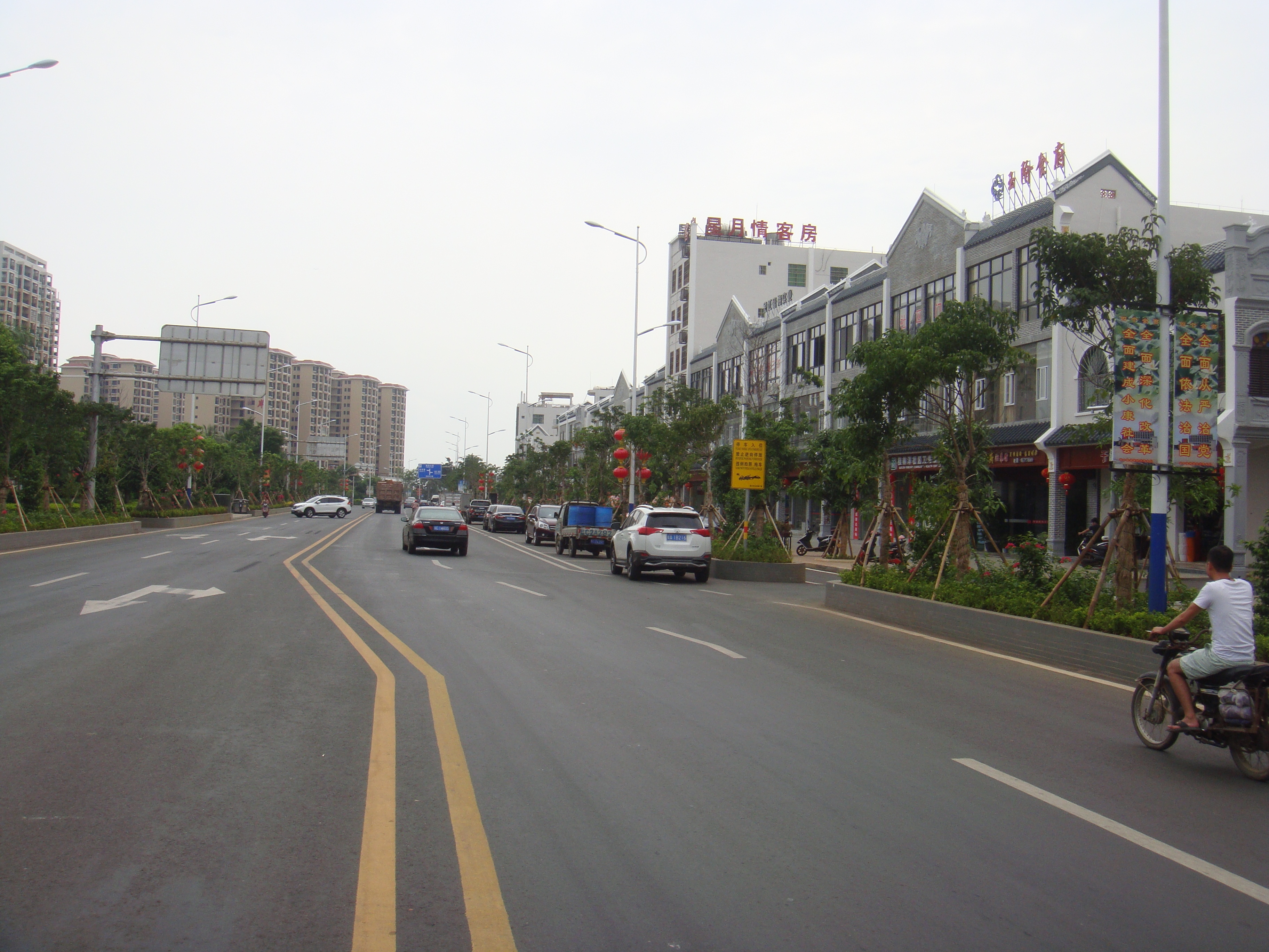 Guilinyang in 2016 09, Haikou Prefecture, Hainan, China. This is after the area underwent infrastructure improvements as part of Hainan's "创建全国文明城市和创建国家卫生城市" or "Create and build a national civilized city and create and build a national sanitary city."